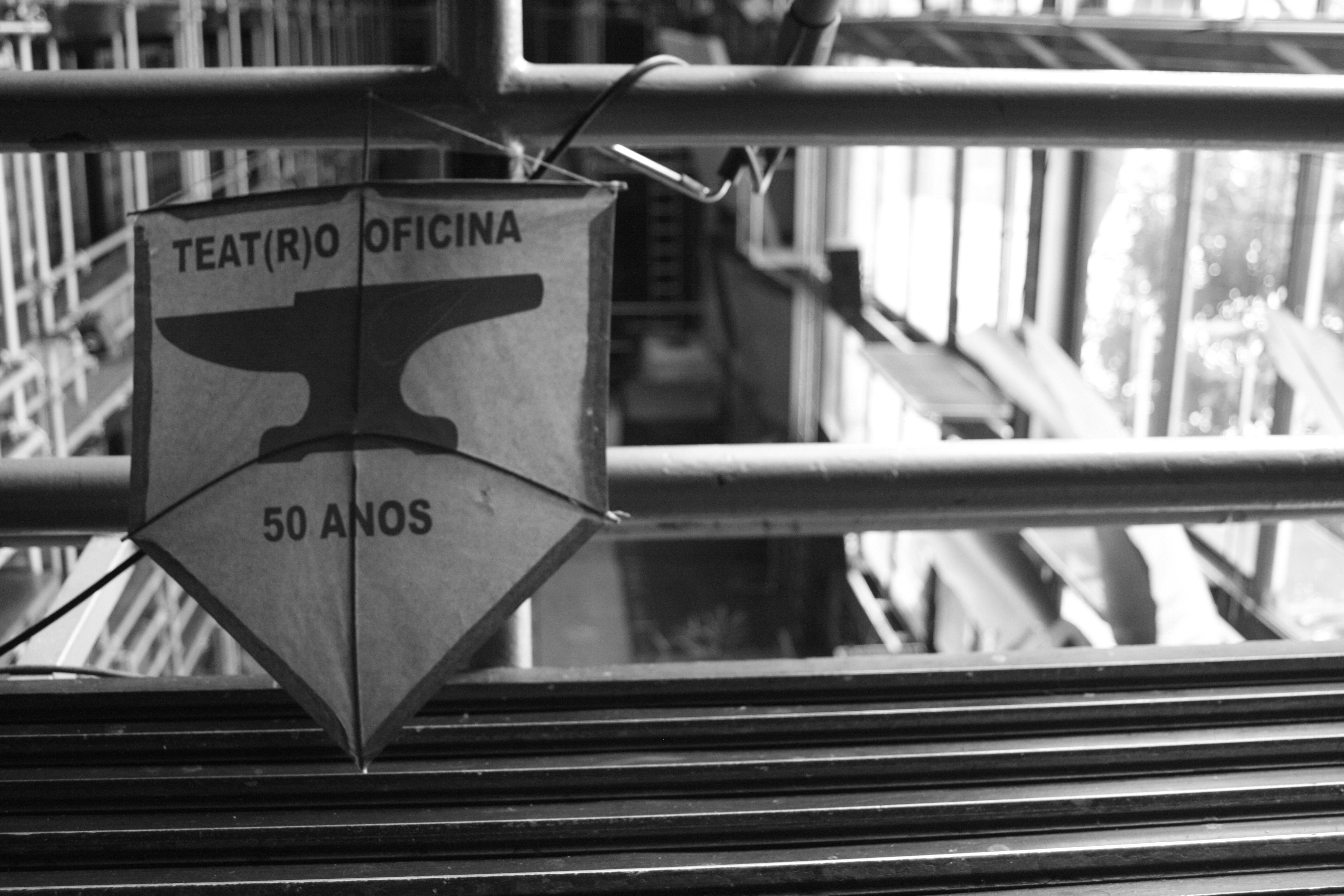 Oficina Uzyna Uzona